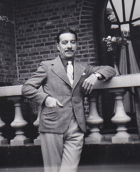 Portrait of the Belgian architect Antoine Varlet